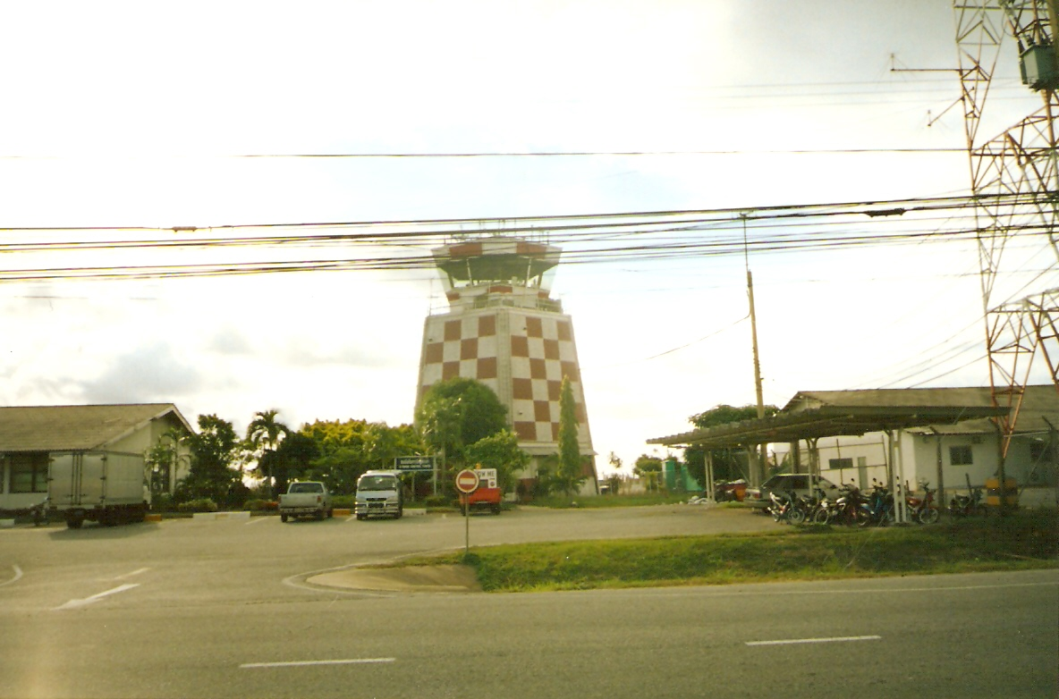 Scanned photo of the air traffic control tower at U-Tapao International Airport